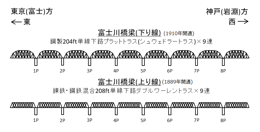 Description figure of Fujikawa railway bridge on Tokaido mainline, when the bridge was double tracked in 1910.